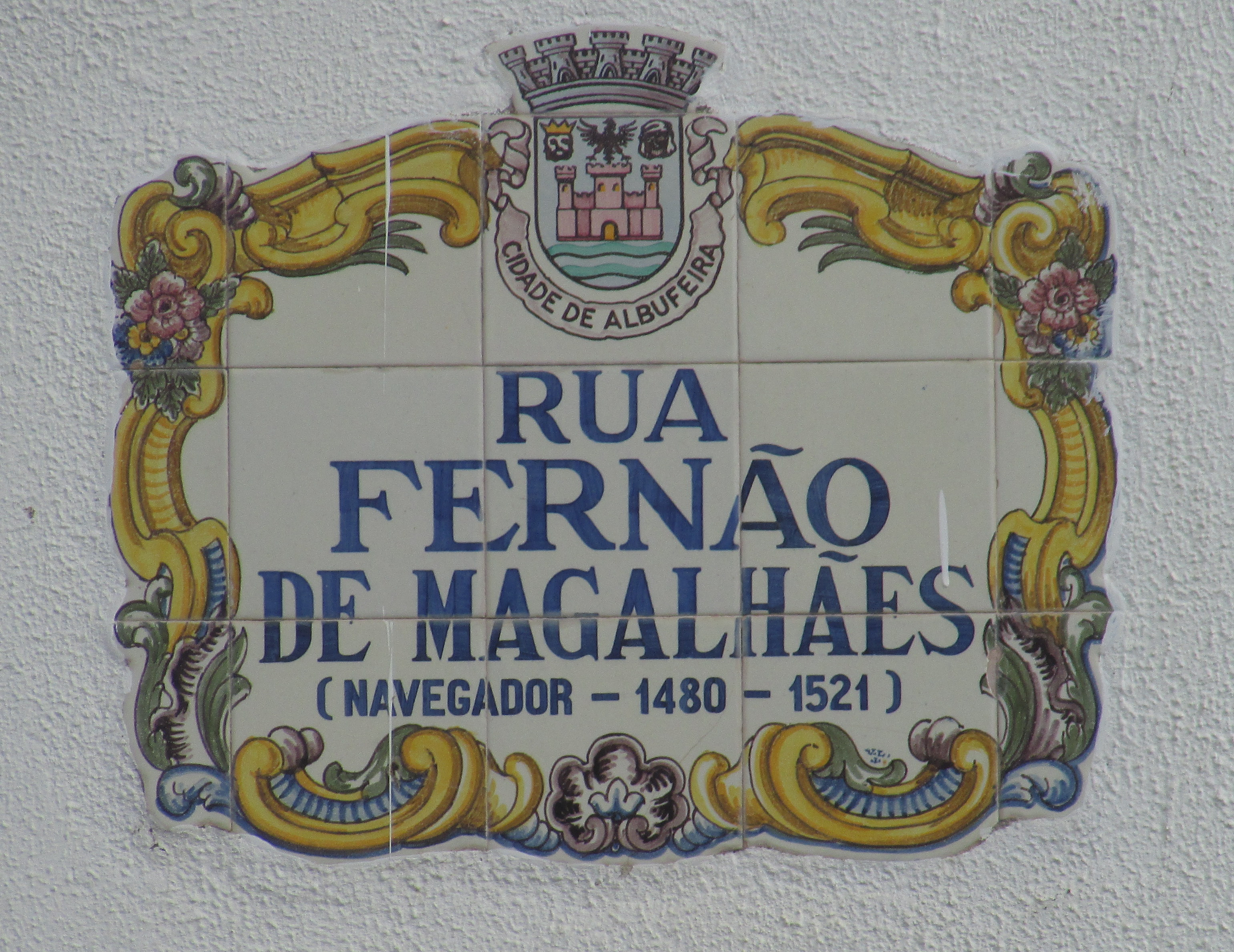 A decretive tile street sign which designates the Rua Fernão de Magalhães within the city of Albufeira, Algarve, Portugal.